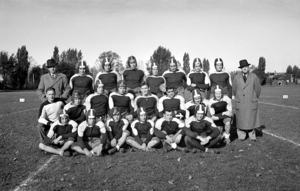 Players from the rugby team from Loyola College, including E. Asselin.